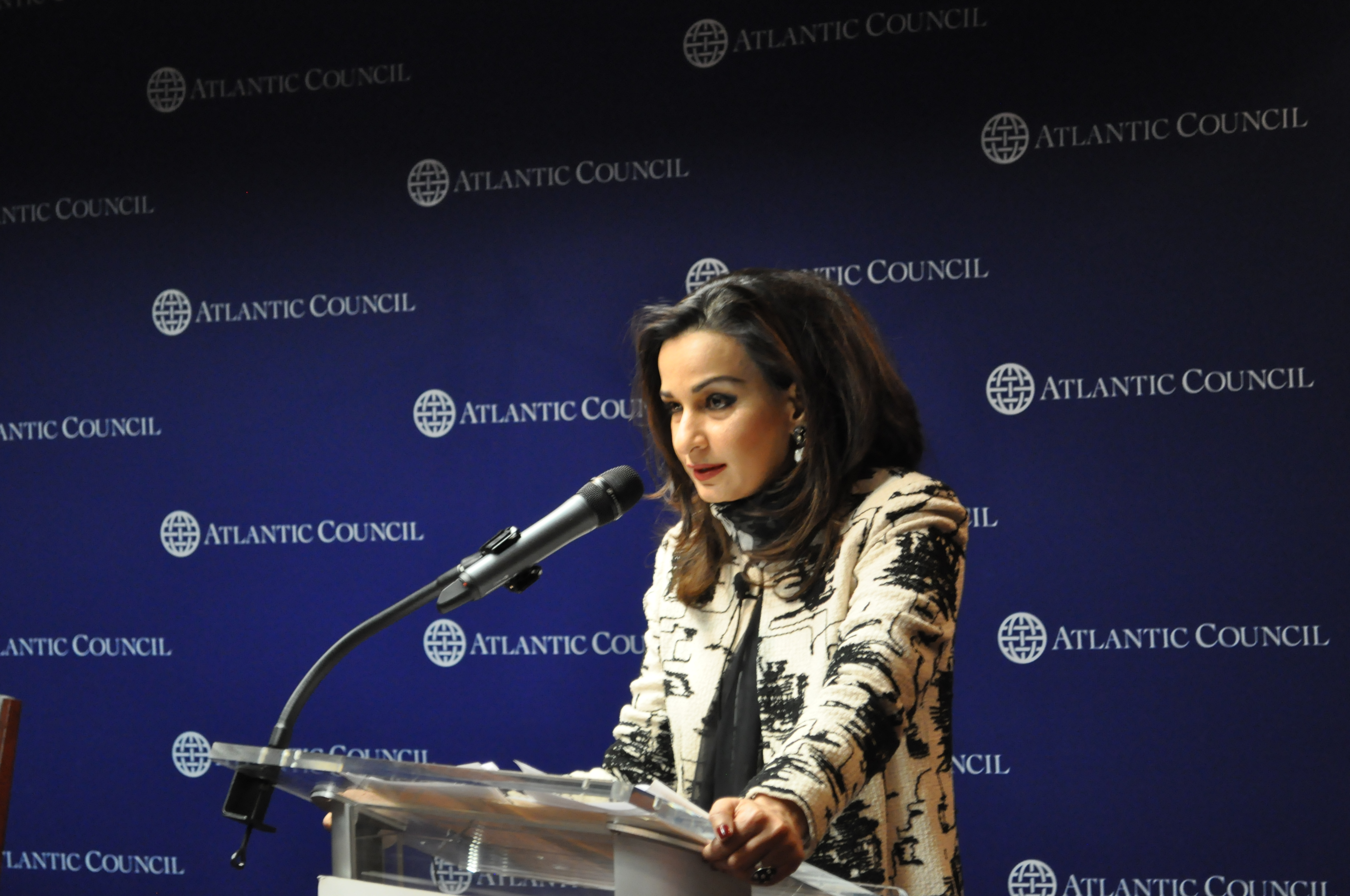 Sherry Rehman